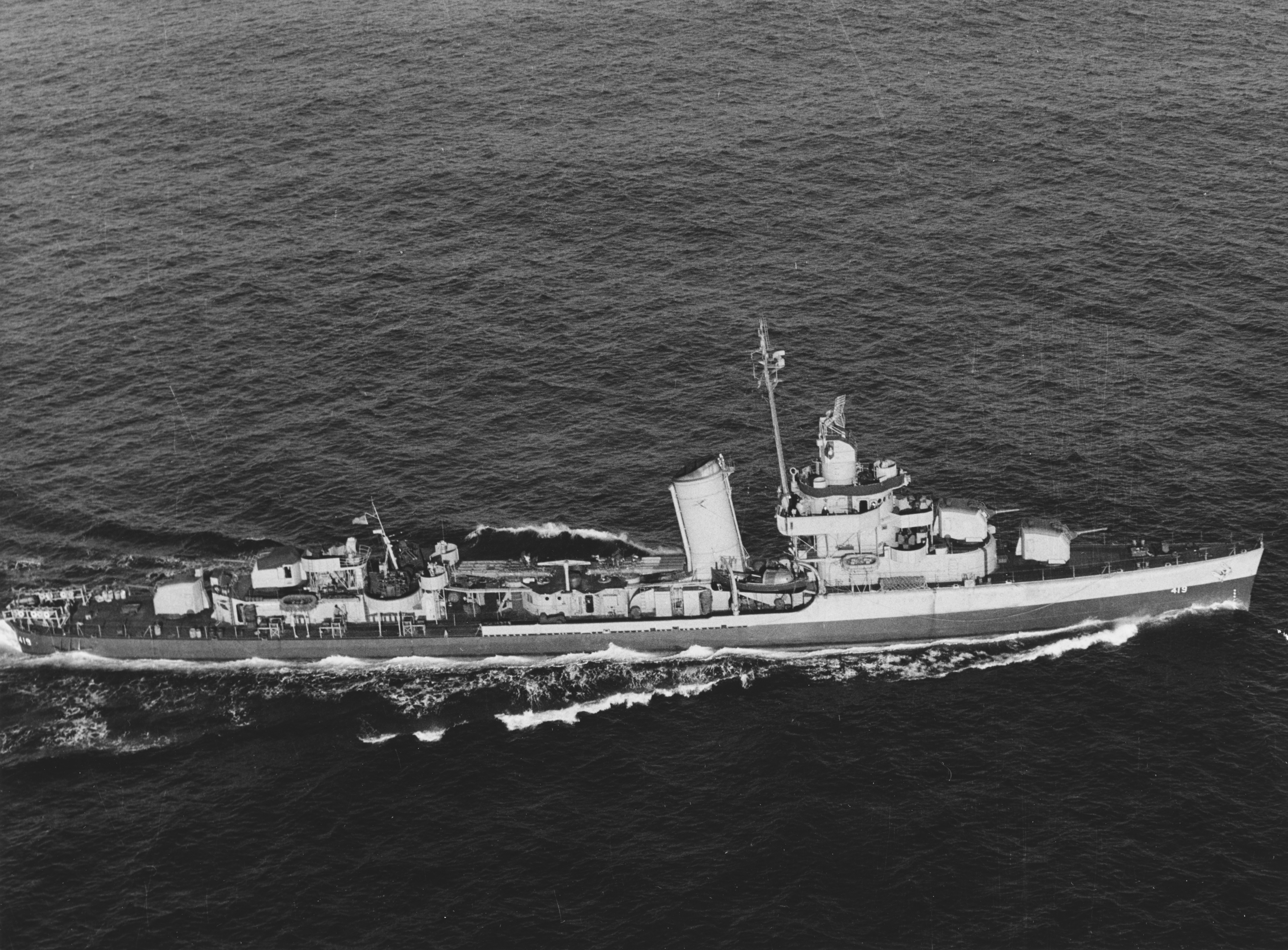 The U.S. Navy destroyer USS Wainwright (DD-419) underway off the U.S. East Coast on 5 May 1944, while assigned to escort and training duties. The ship is wearing Camouflage Measure 22. Note the two men on the starboard bridge wing and the man on the main deck below the after conn.